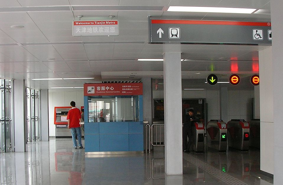 Entrance "B" to Xi'nanjiao Station of the Tianjin Metro